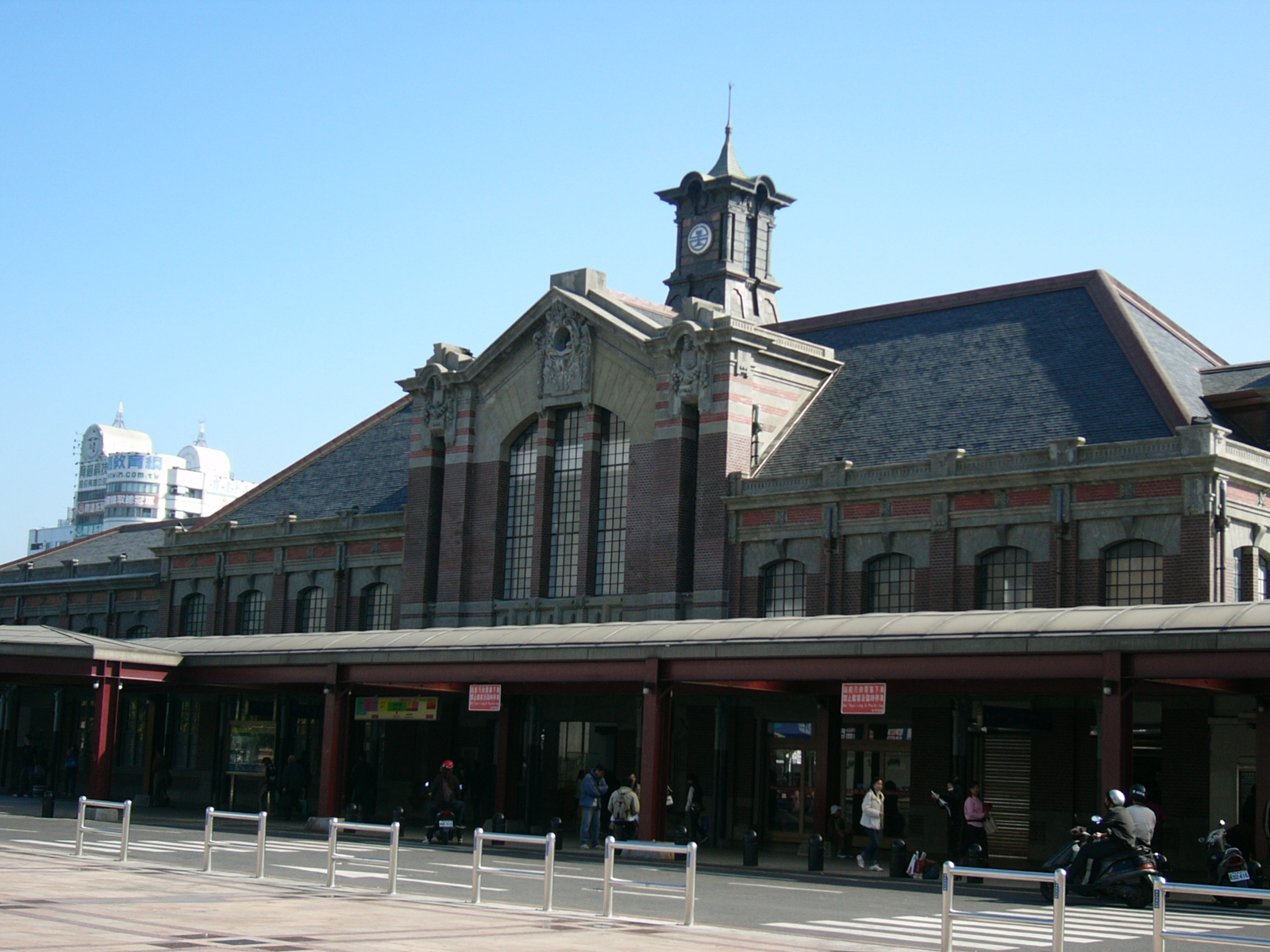 face-lift of Taichung Station / Taichung City, Taiwan